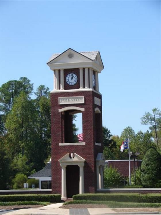 The clocktower at Preston Corners in Cary, NC